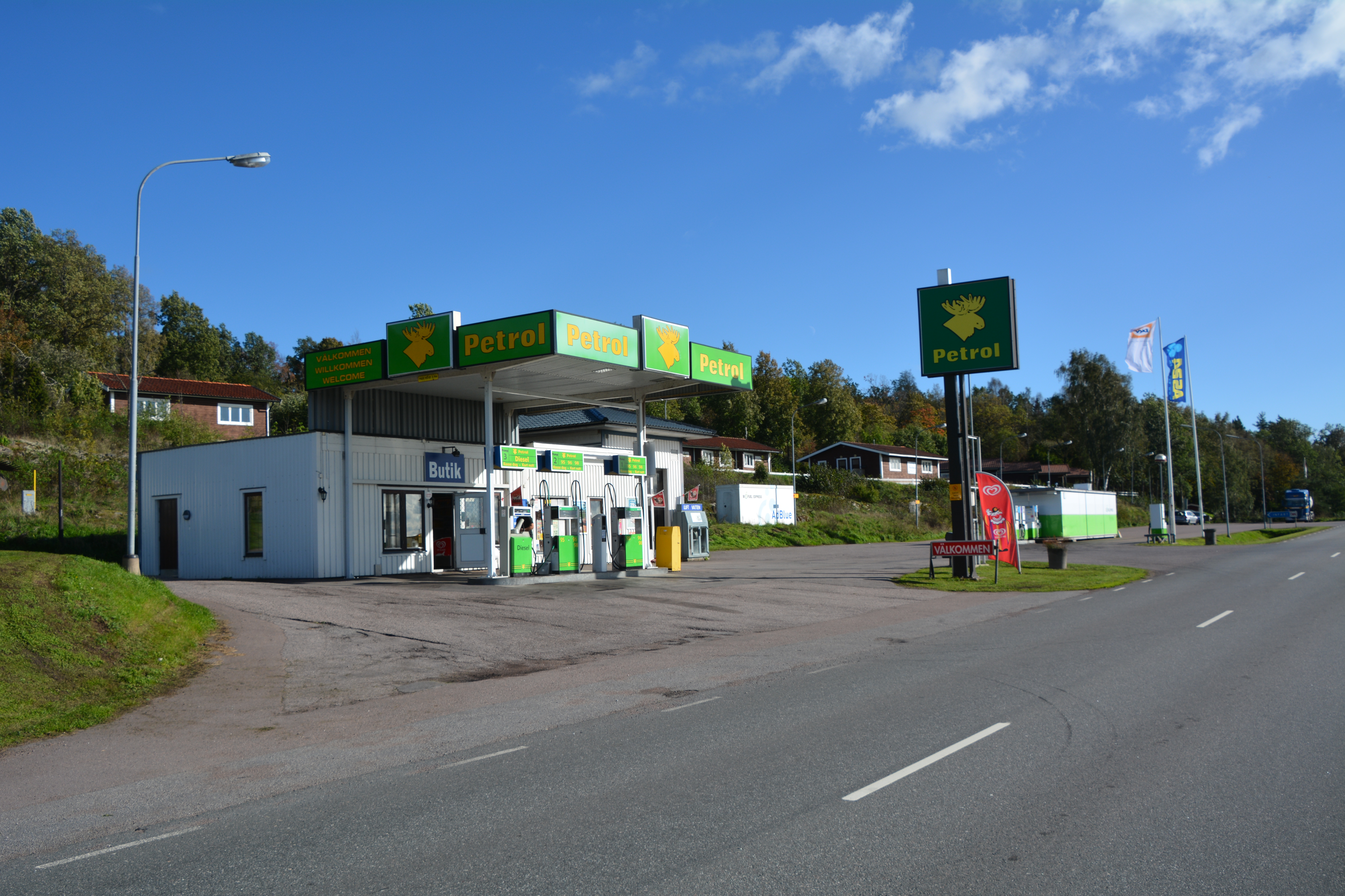 Petrol station at Motell Vida Vättern, Ödseshög Municipality, Sweden.